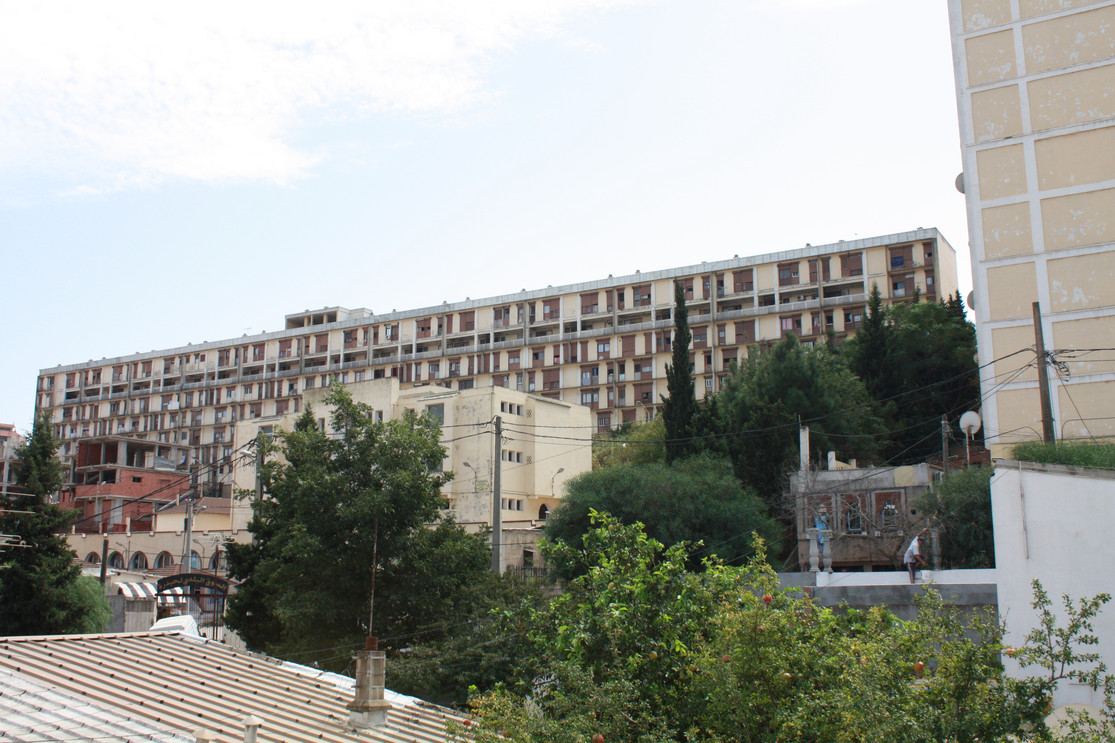 A building of the Cité Sellier Hydra Algiers Algeria ("Black building").